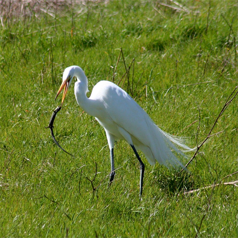 An egret playing a cat and mouse game with a lizard. Photograped by Brocken Inaglory